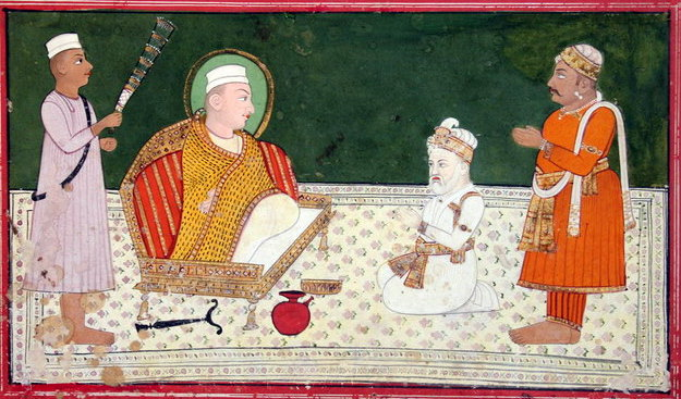 "Mughal Emperor Akbar shows deference to Sufi saint Sheikh Salim Chishti. Bikaner"